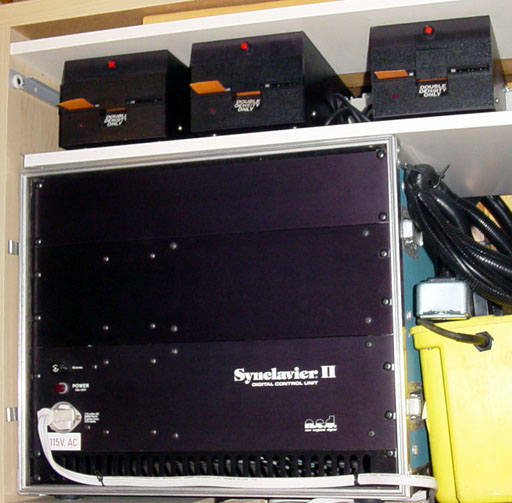 Jean-Bernard EMOND